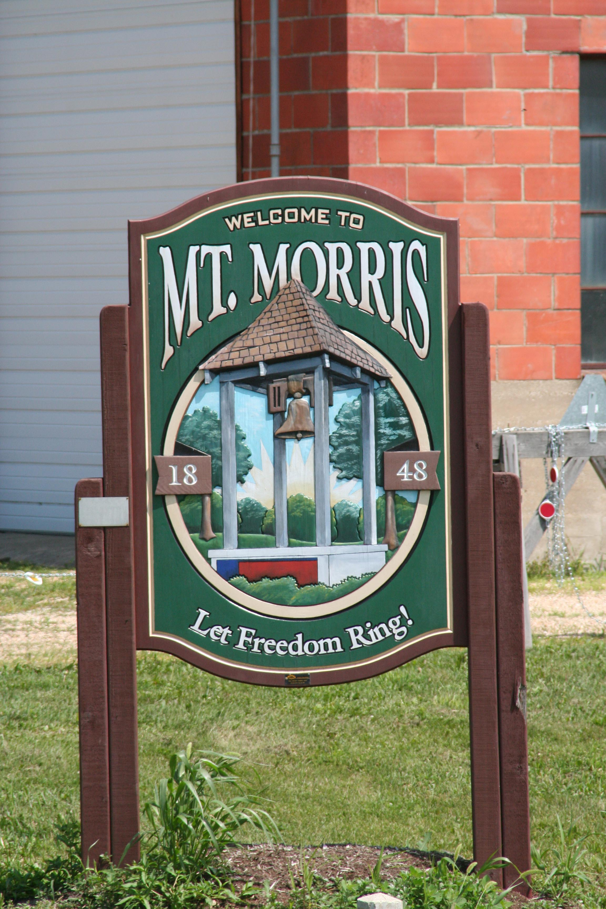 Sign leading into the west side of Mount Morris, Illinois, USA, on Rt. 64.